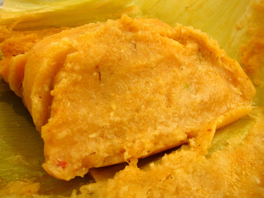 Cooked filling of a humita